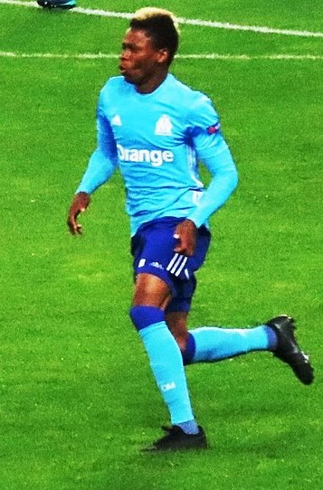 Clinton Njie with Olympique de Marseille in 2018.